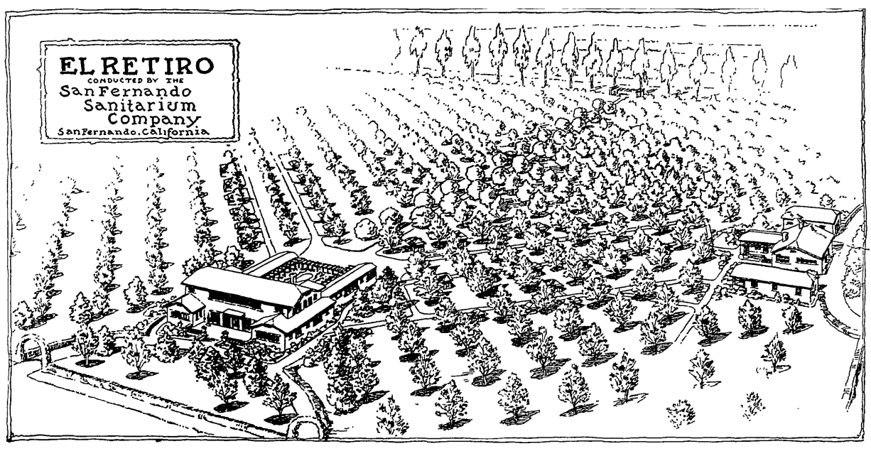 Advertisement from the Los Angeles Times of January 1, 1916, for the El Retiro sanitarium in the San Fernando Valley, in the area that later became Sylmar, Los Angeles. Ad has a drawing showing buildings and orderly rows of trees. Caption "El Retiro, conducted by the San Fernando Sanitarium Company San Fernando, California." Other information Access to the source of this file may require the use of a library card.